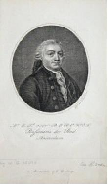 Engelbert François Berckel, 8-10-1726 in Rotterdam -30-3-1796 in Amsterdam. Pensionary of Amsterdam, son of Engelbert van Berckel, born in Rotterdam. Creator: Senus, W. van / engraver ; Date: 1780 t/m 1780 Technique: print: copper engraving Size: 23 cm x 13 cm. Catalogue number: P 021015